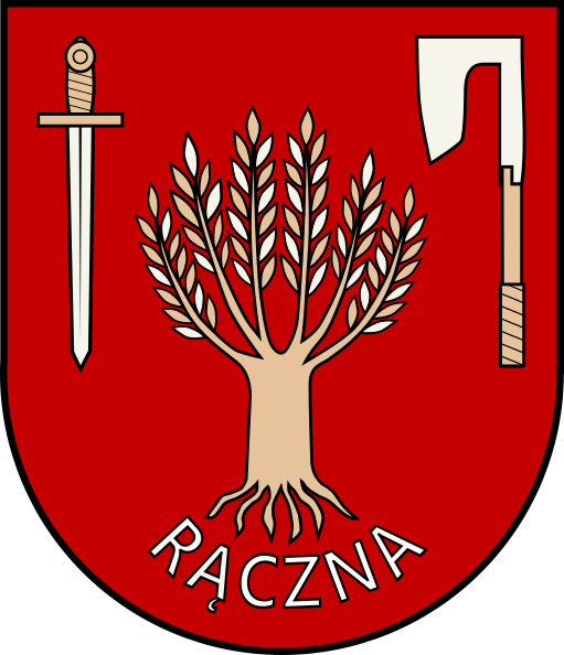 Informal coat of arms of Rączna; which consists of ax, sword, willow. Everything enclosed in the outline of the heraldic shield